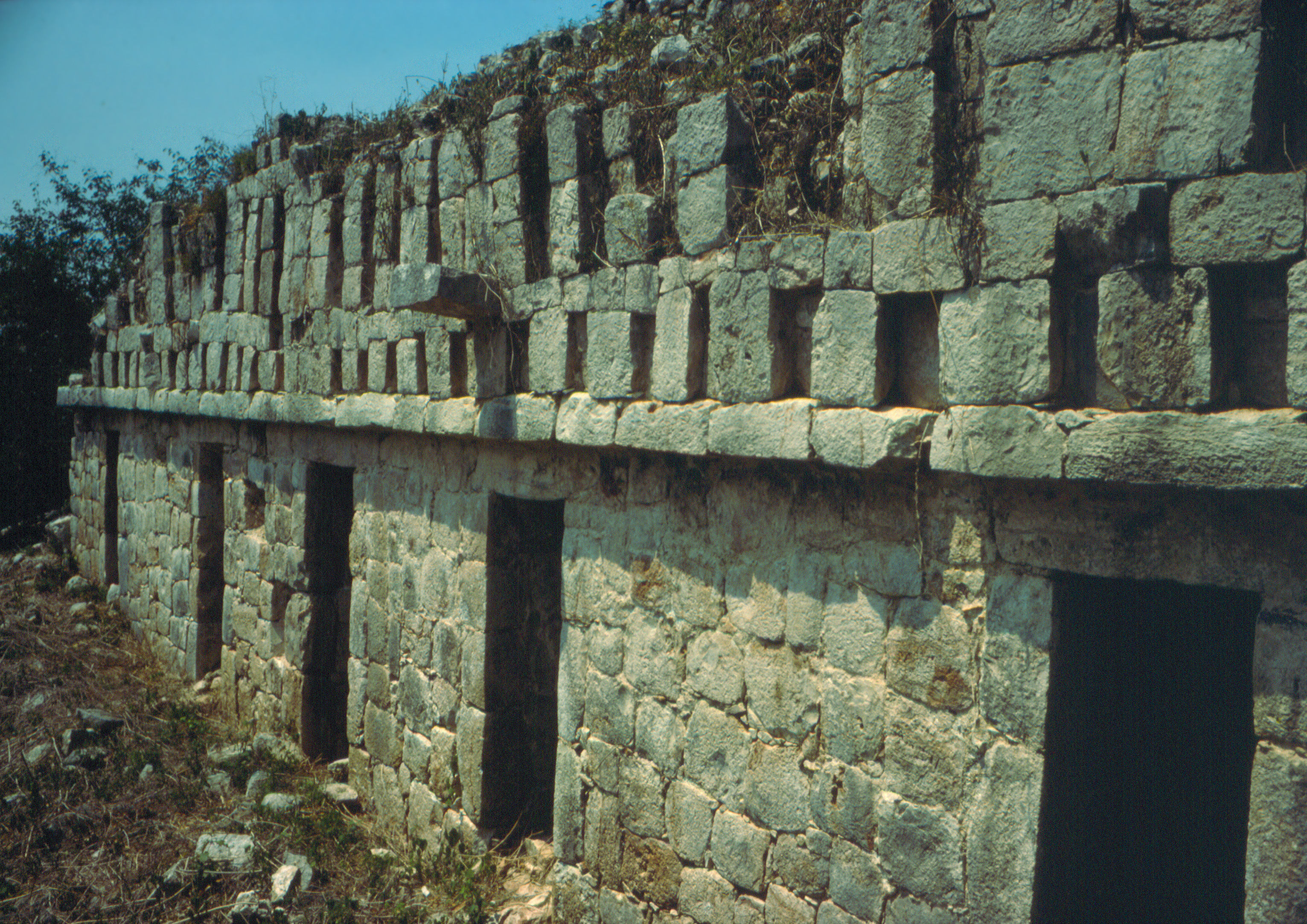 Xbalché, Campeche, Mexico: building 6, before restoration.